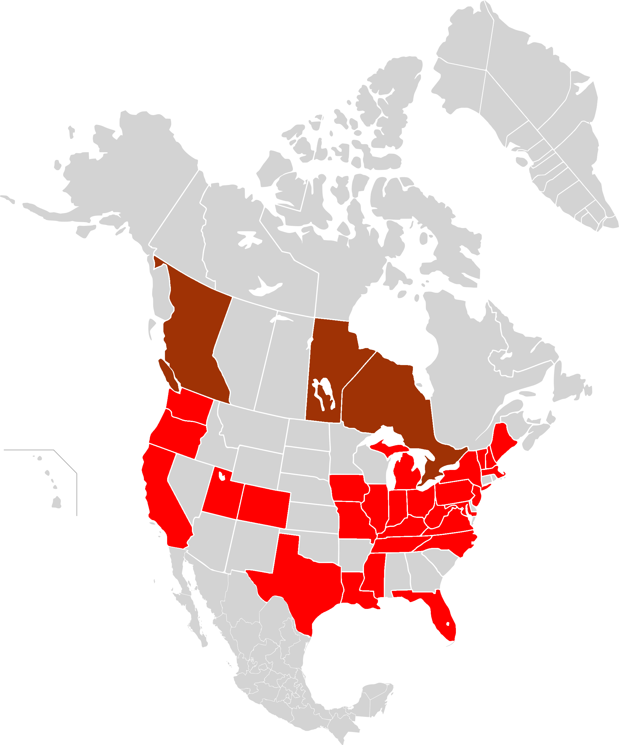 USA States with PDL teams are highlighted in red, Canadian Provinces with PDL teams are in dark red, 2011 expansion teams included. Not shown: Bermuda Hogges.